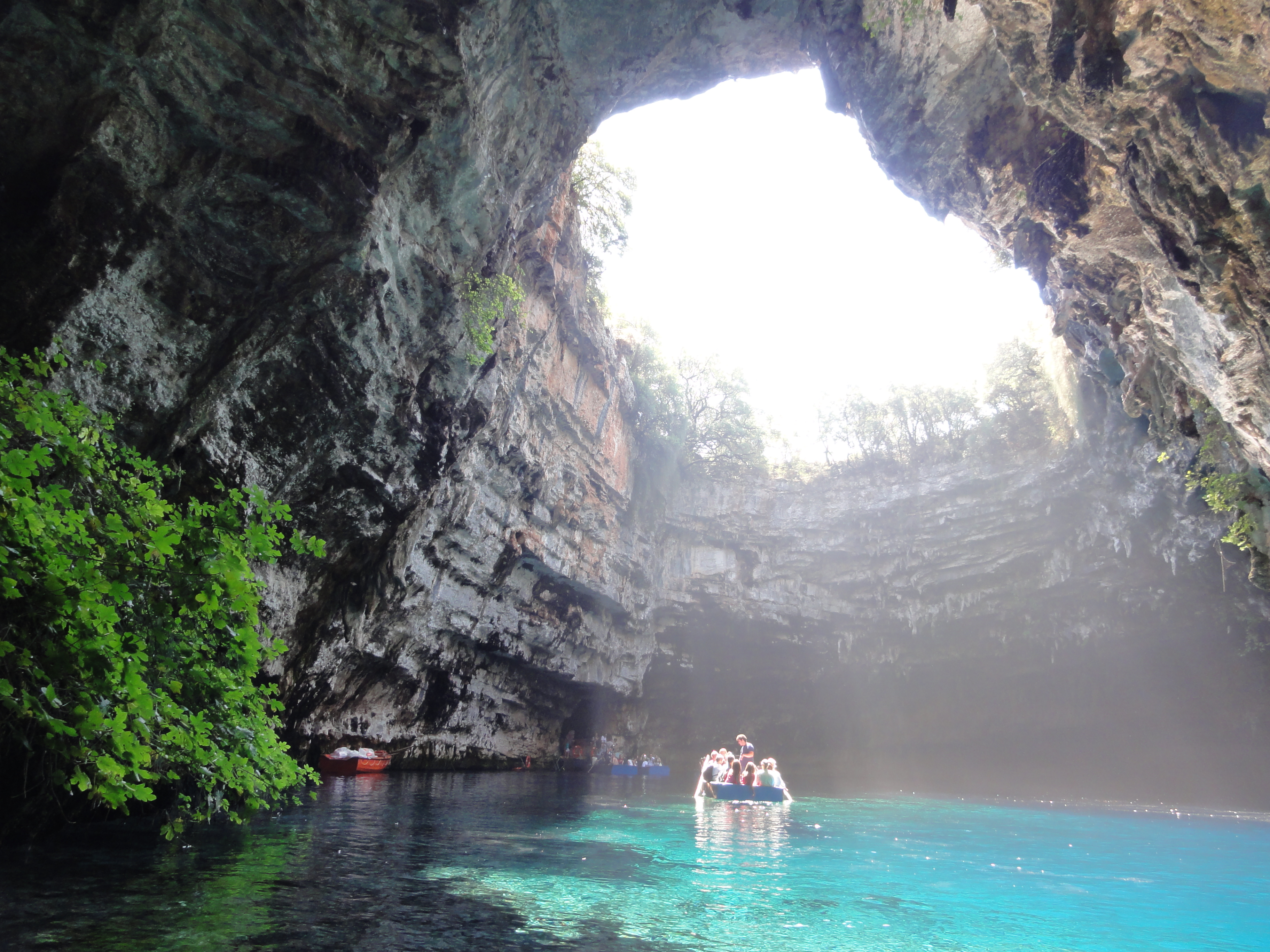 Photographs taken in Kefalonia.